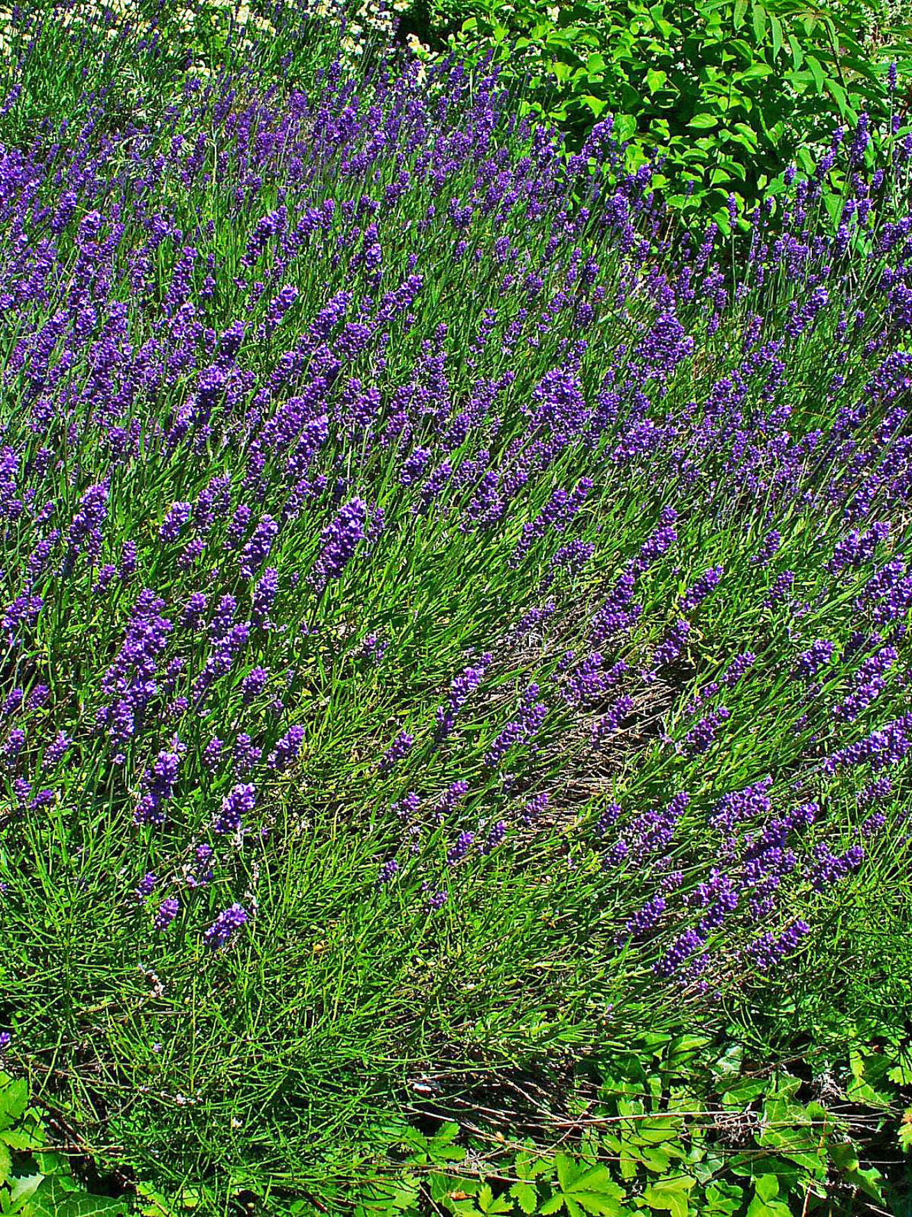 Lavandula angustifolia, Lamiaceae, Common Lavender, True Lavender, English Lavender, habitus; Karlsruhe, Deutschland. The fresh flowers are used in homeopathy as remedy: Lavandula (Lav-o.)